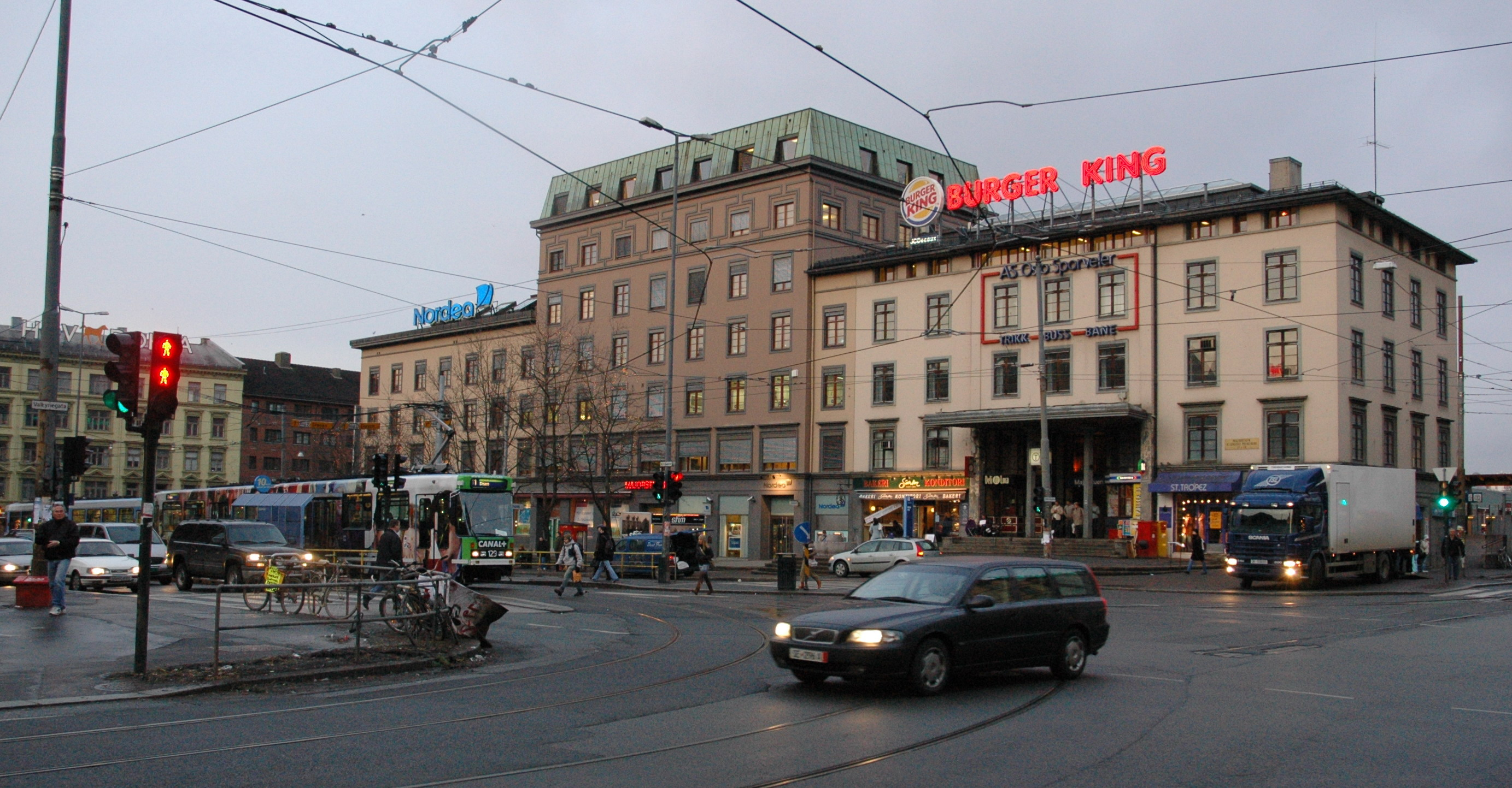 The office building Majorstuhuset from Majorstua, Oslo